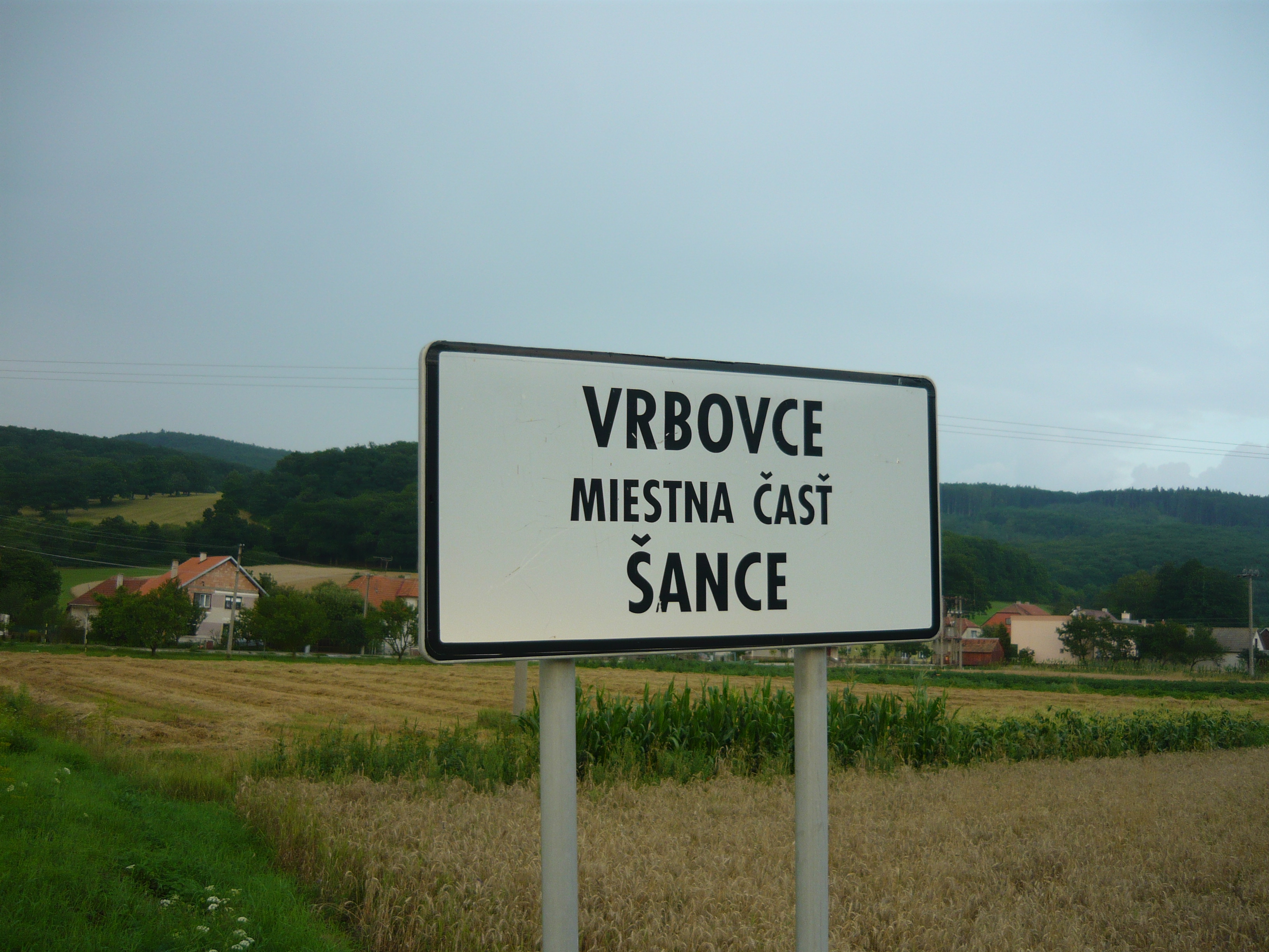 Road sign of Vrbovce, Šance, Slovakia